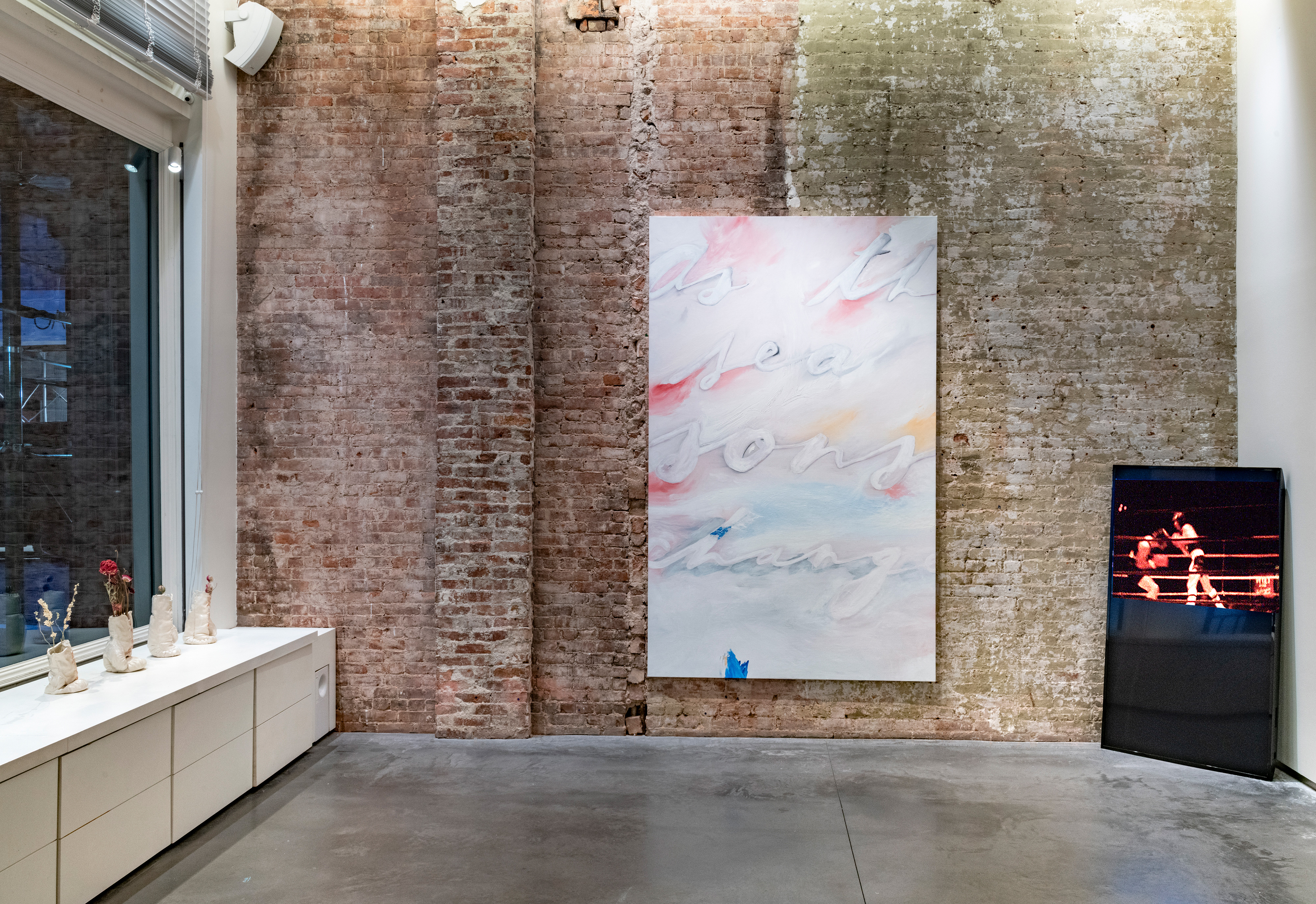 Front of agnès b. store in SoHo, Manhattan.